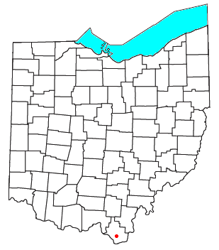 Locator map of the unincorporated community of Rock Camp in Lawrence County, Ohio, United States.